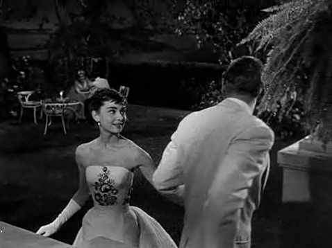 Screenshot of Audrey Hepburn and William Holden from the trailer for the film Sabrina (1954 film)